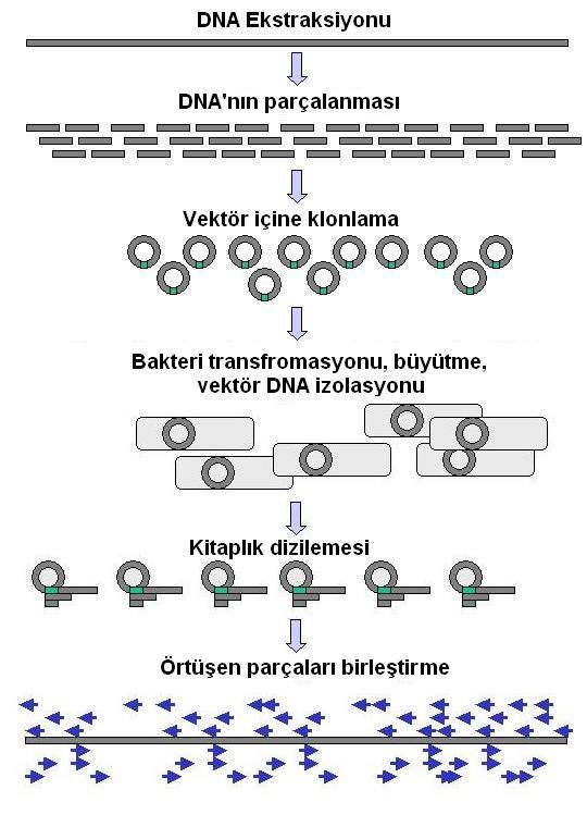 Steps of shotgun sequencing.